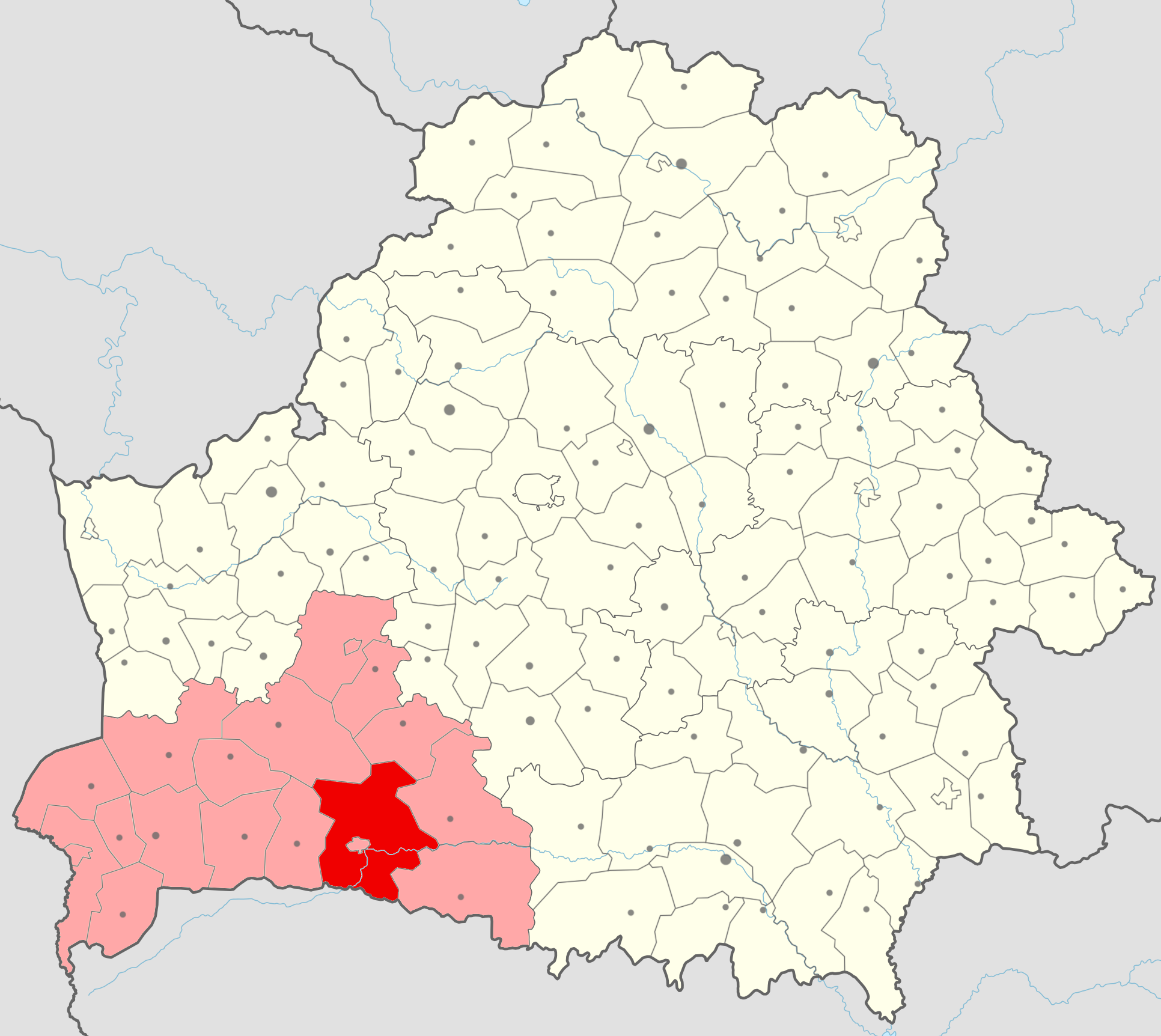 Location of Pinski rajon (red) in Bresckaja voblasć (light red) in Belarus.